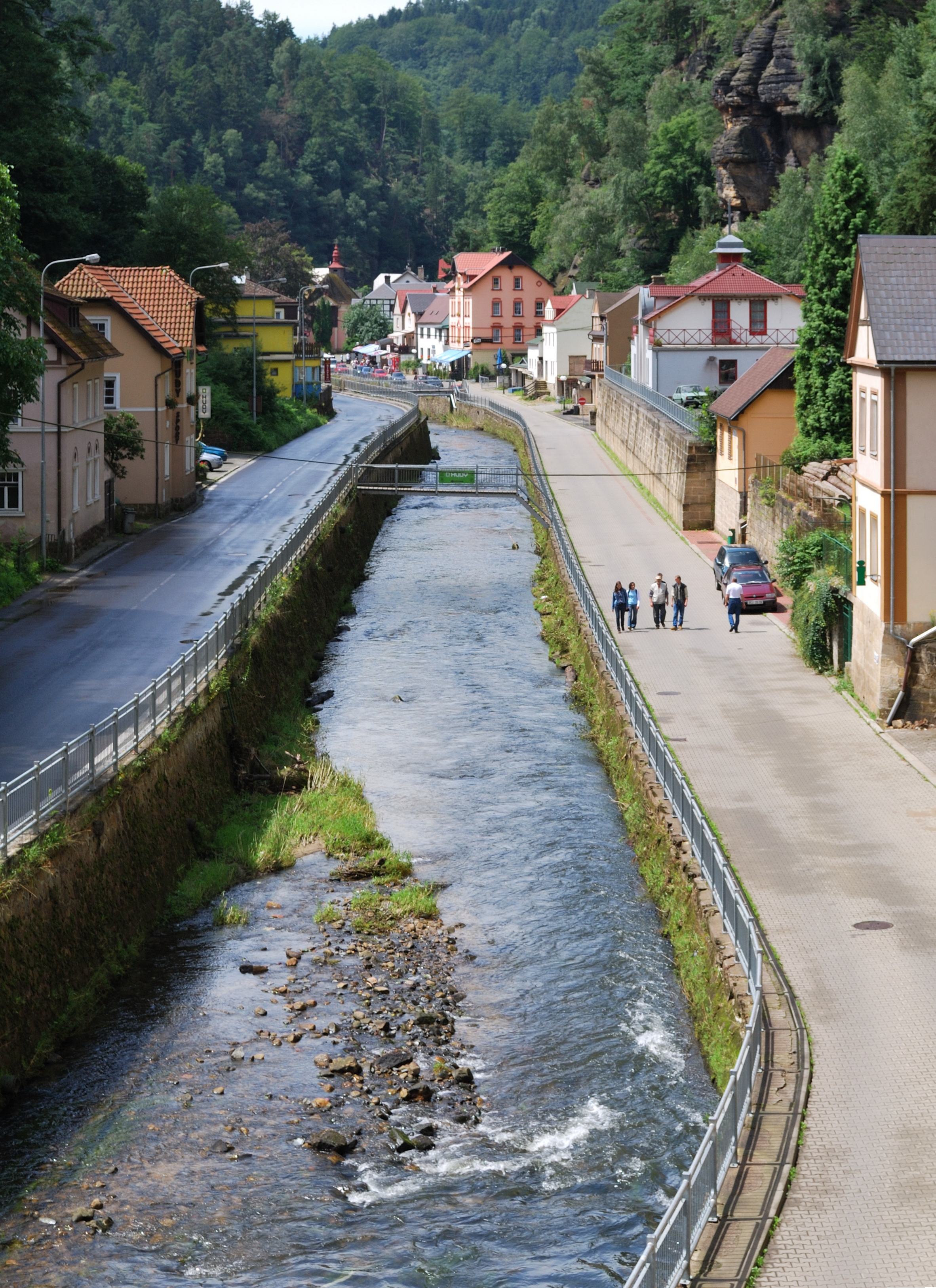 The village Hřensko at the river Kamenice in the North of the Czech Republic.